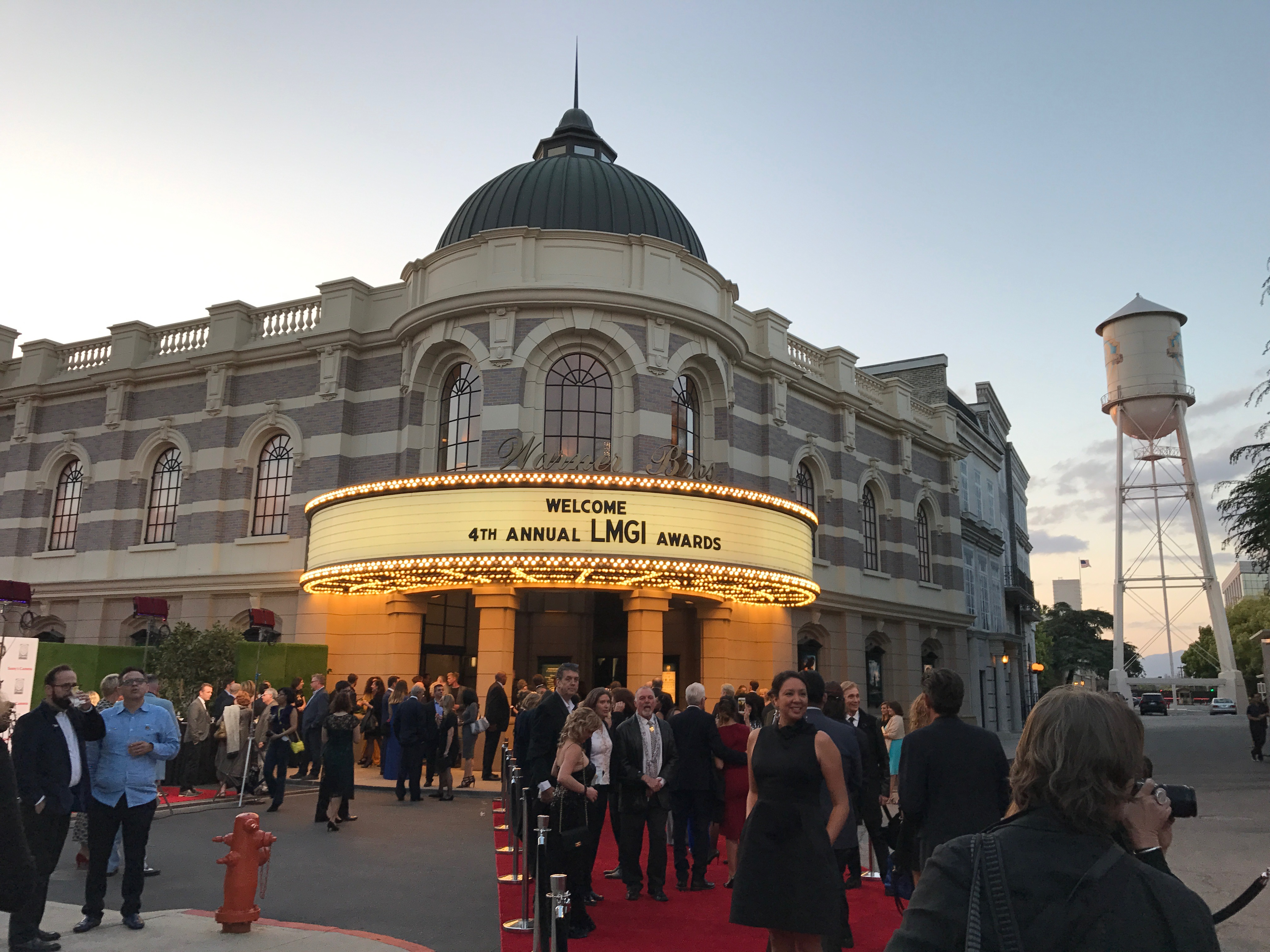 Film and TV Location Professionals arrive at the Warner Bros. Steven J Ross Theater for the 4th Annual Location Managers Guild Awards, held on 8 April, 2017.